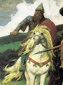 Dobrynya Nikitich in the painting "Knights" by Viktor Vasnetsov.